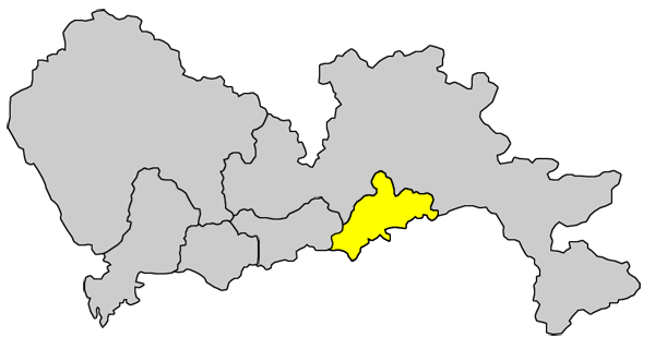 Location of Yantian District, Shenzhen